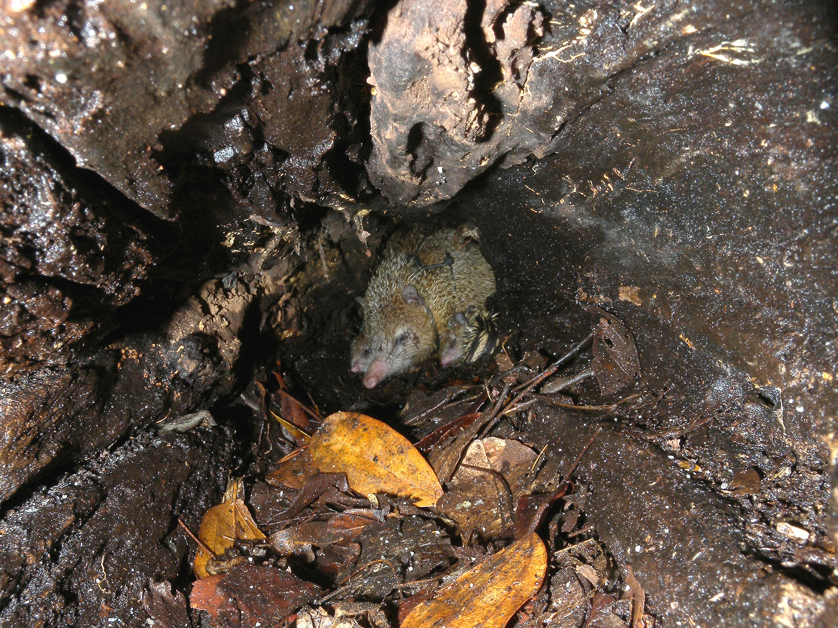 Common Tenrec (Tenrec ecaudatus) in a hollow treetrunk, Ankarafantsika National Park, Madagascar